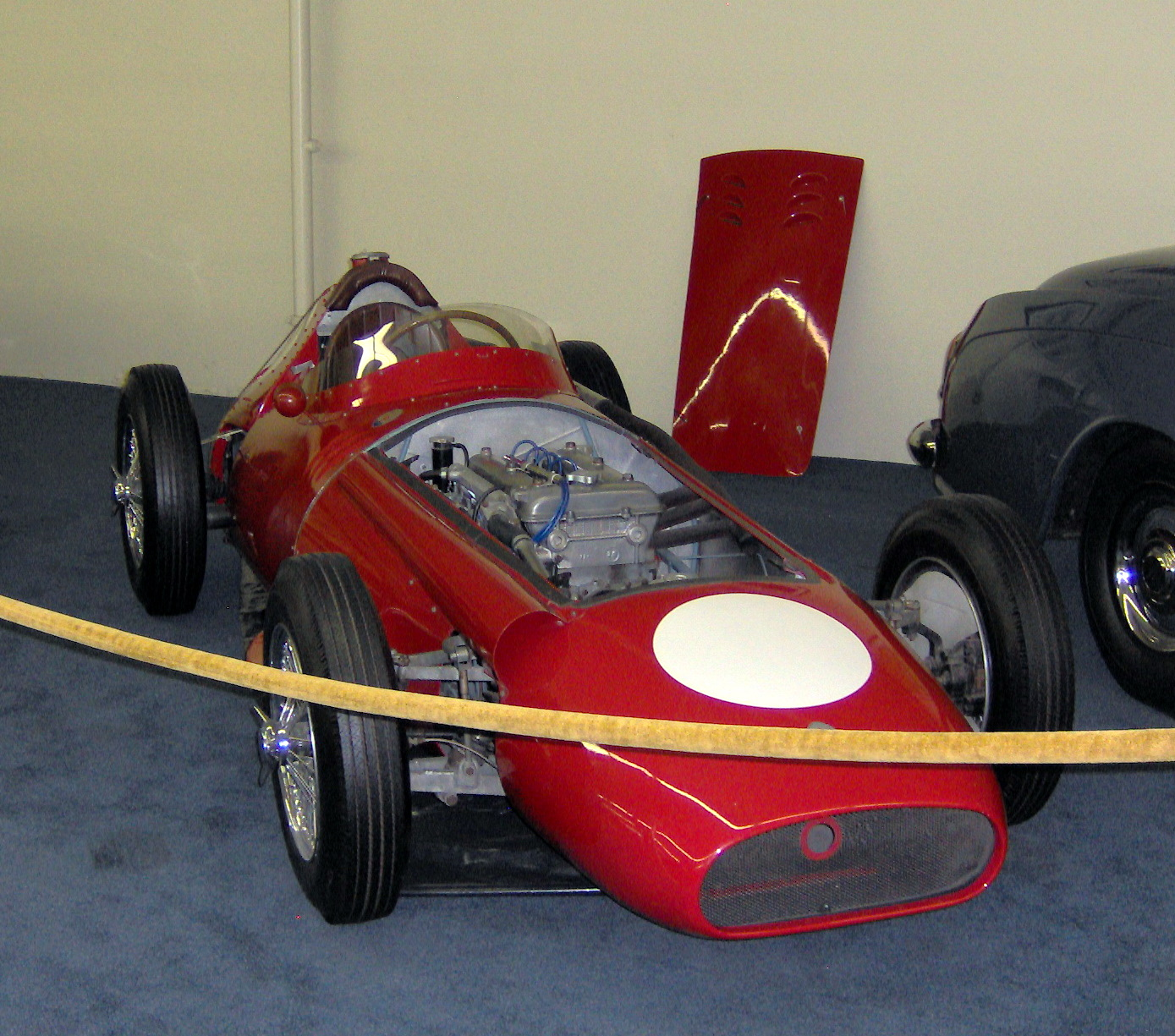 1957 Maserati 250F Grand Prix Recreation